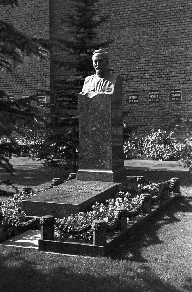 “Bust of Felix Dzerzhinsky”. A bust of Felix Dzerzhinsky on his grave near the Kremlin Wall.